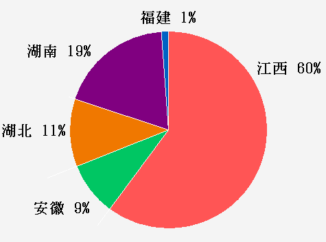 Percentage of Gan